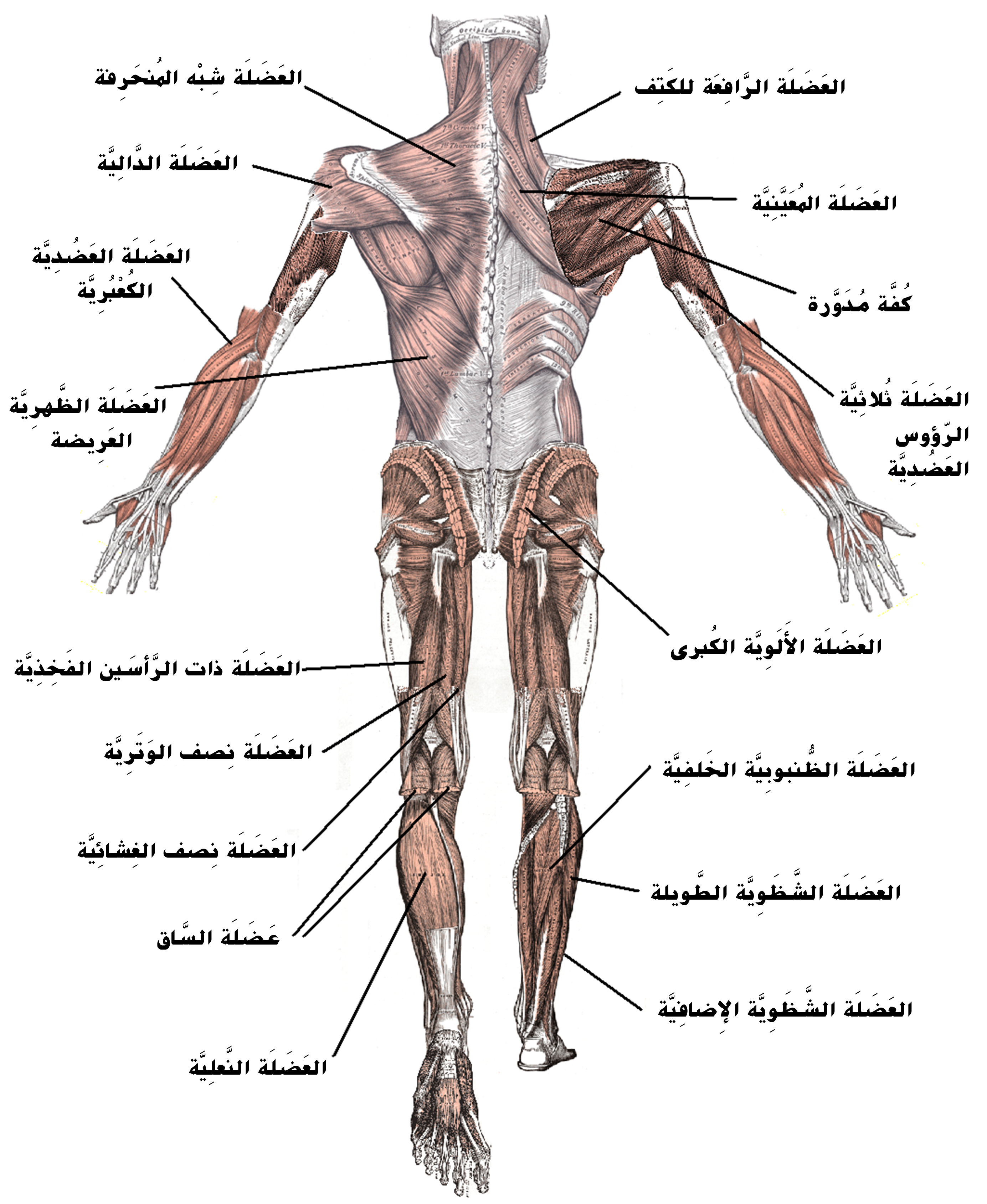 Collage of varius Gray's muscle pictures by Mikael Häggström (User:Mikael Häggström)